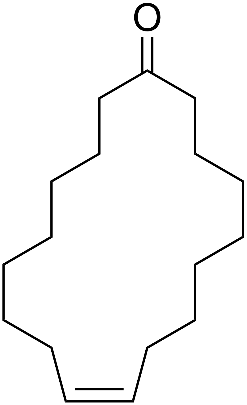 chemical structure of civetone